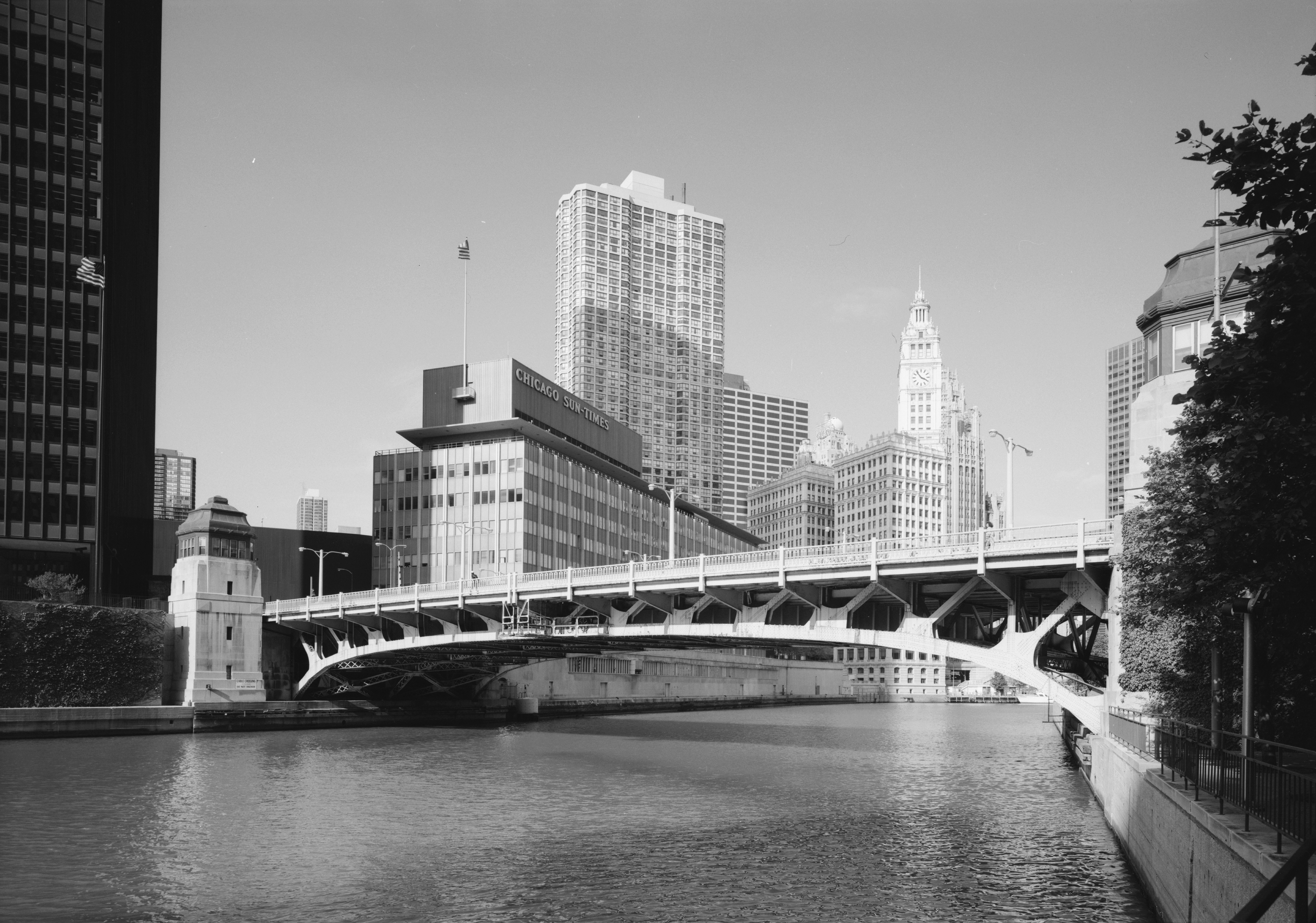 Wabash Avenue Bridge looking North East from the South West Chicago, IL The Chicago Sun-Times building was demolished in 2005 to make way for the Trump International Hotel and Tower.